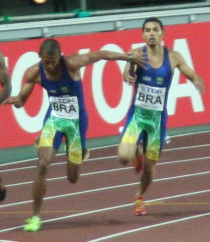 World Athletics Championships 2007 in Osaka - Final exchange during the men*s 4*100 metres relay final: Sandro Viana, Basílio de Moraes